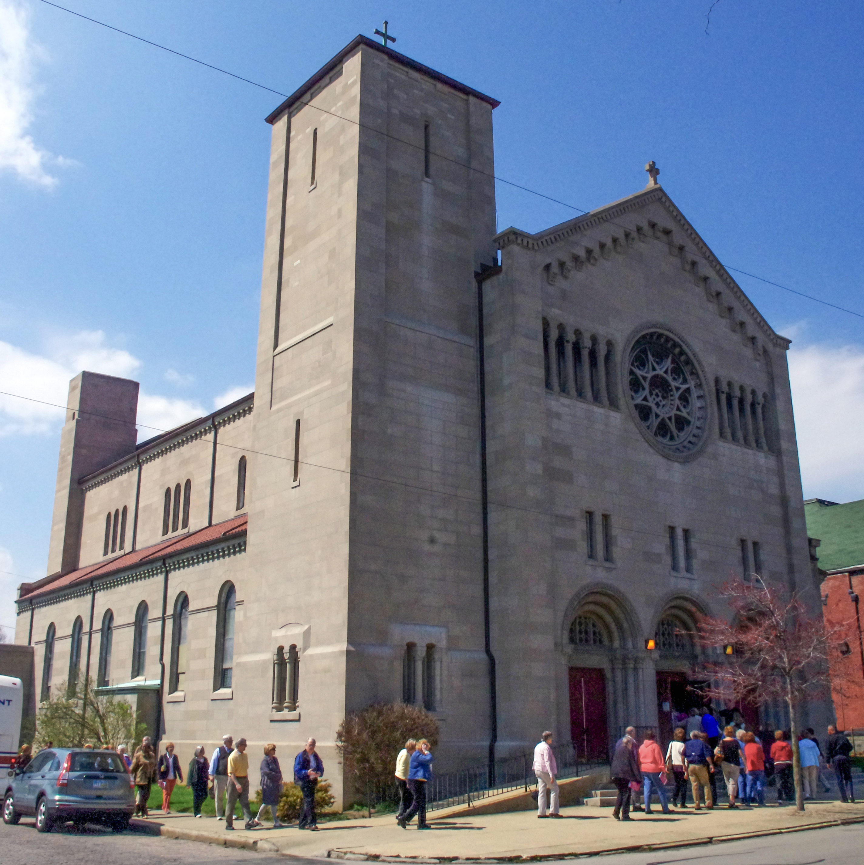 Saint Dominic Catholic Church (Columbus, Ohio) - exterior